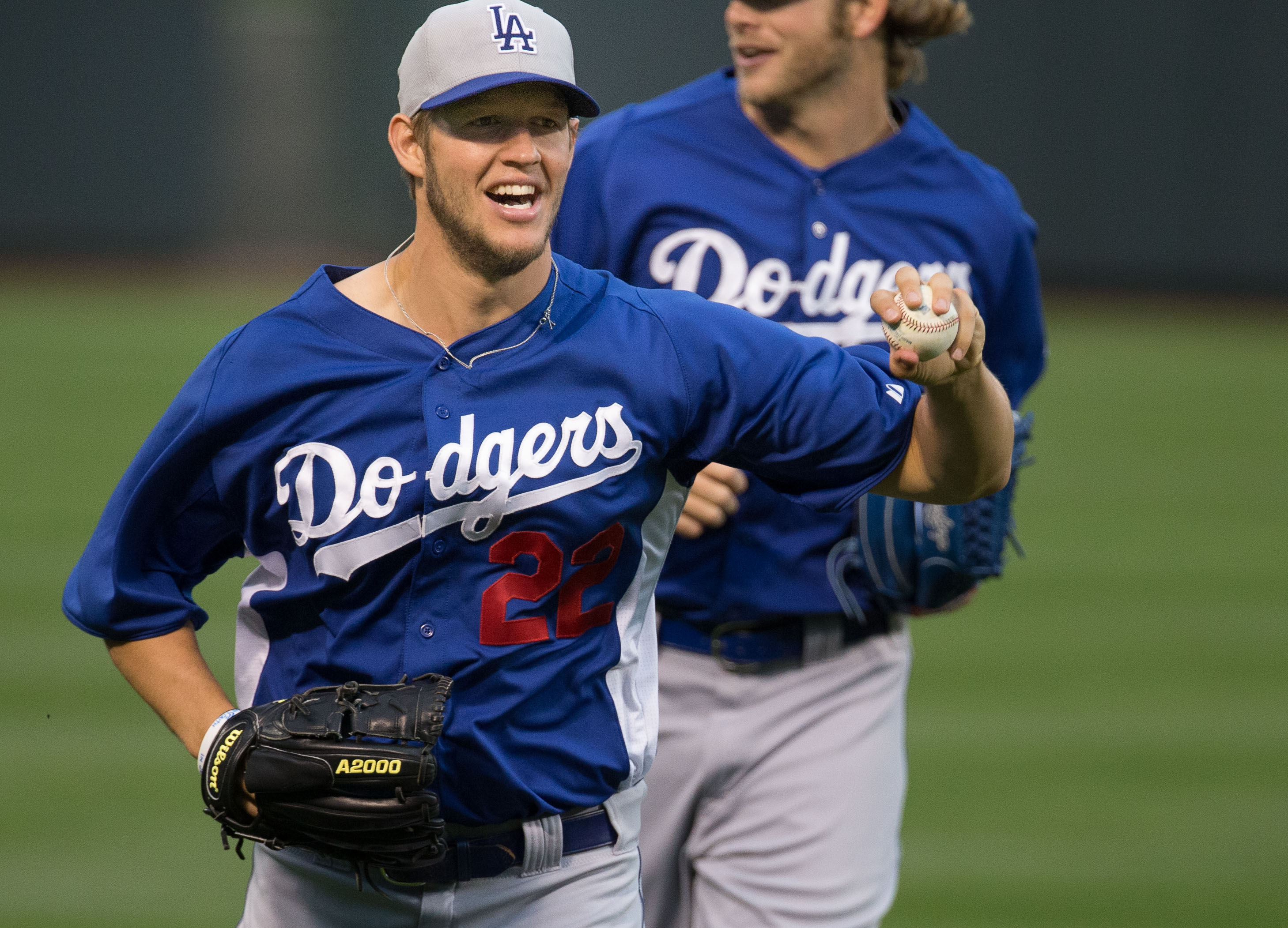 Los Angeles Dodgers at Baltimore Orioles April 19, 2013